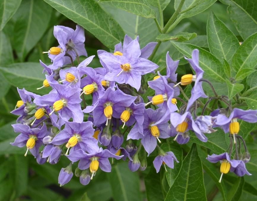 Solanum crispum, Chilean potato vine in bloom